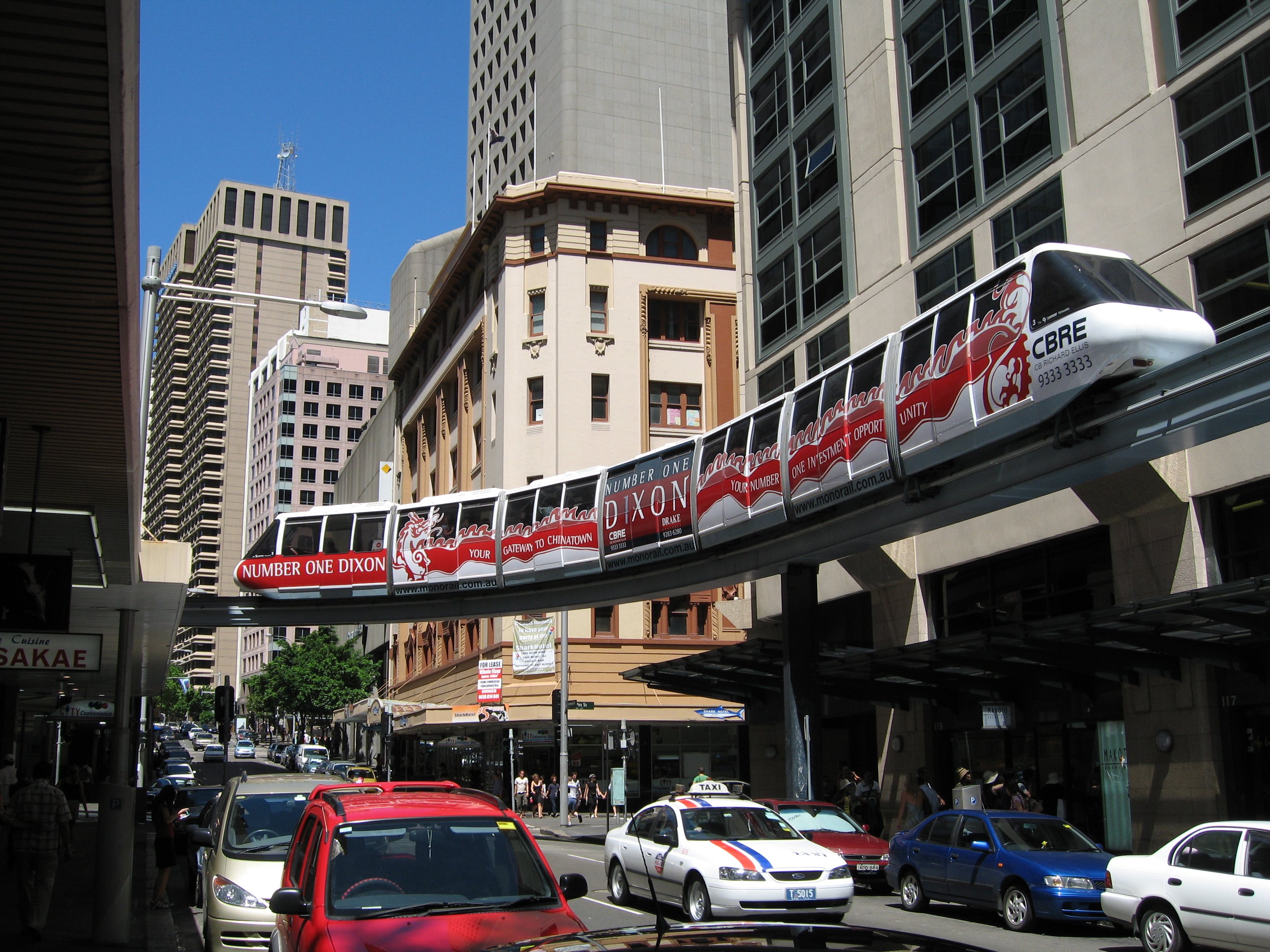 Metro Monorail, Liverpool and Pitt Streets, Sydney, Australia.